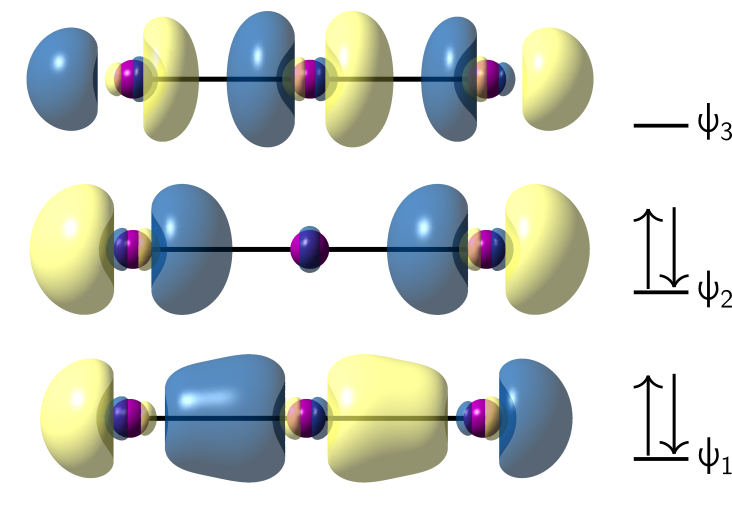 Sigma molecular orbitals of the triiodide anion, illustrating 3-center 4-electron bonding.